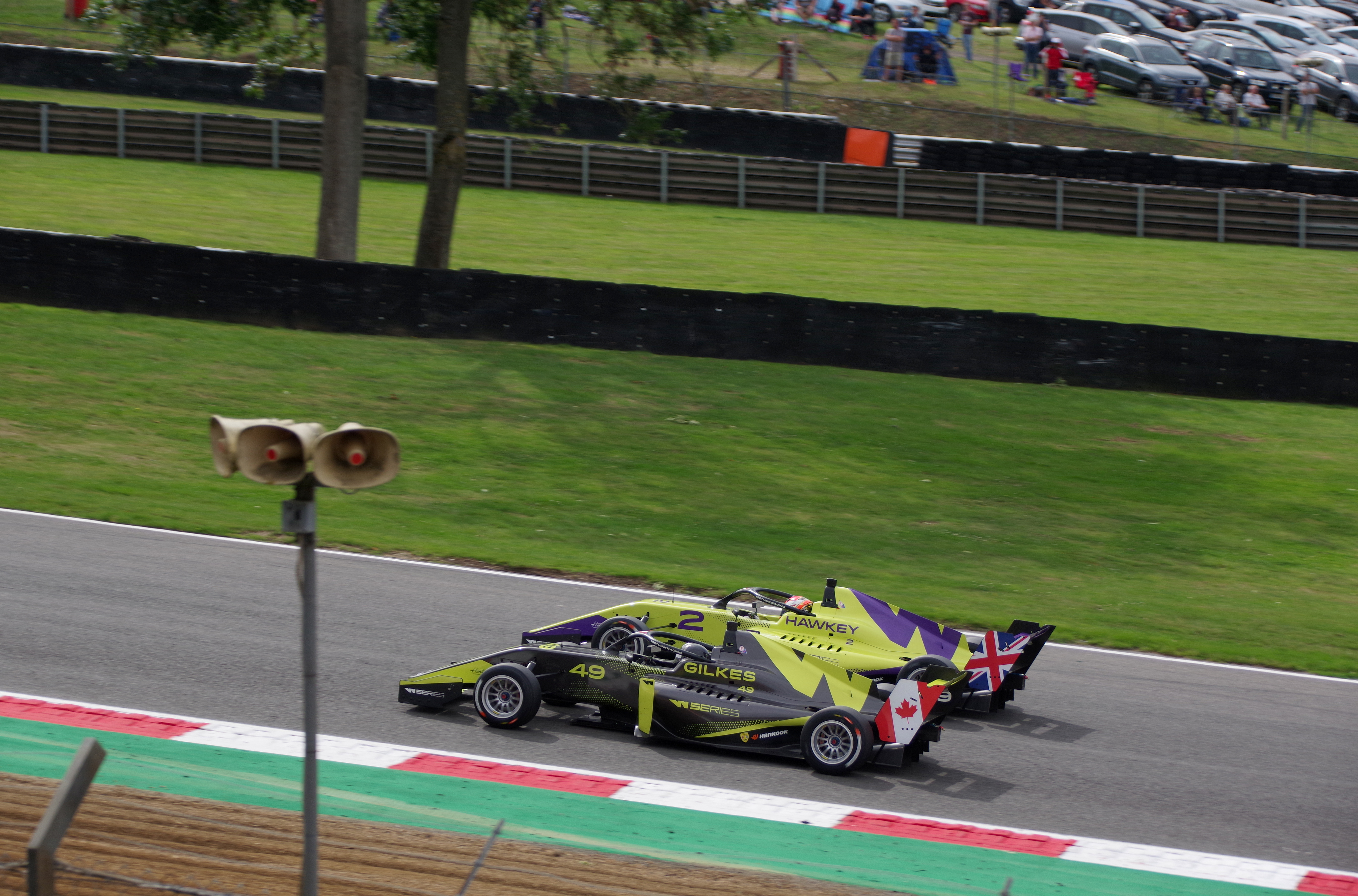 W Series racing at Brands Hatch - Esmee Hawkey and Megan Gilkes head towards Druids.